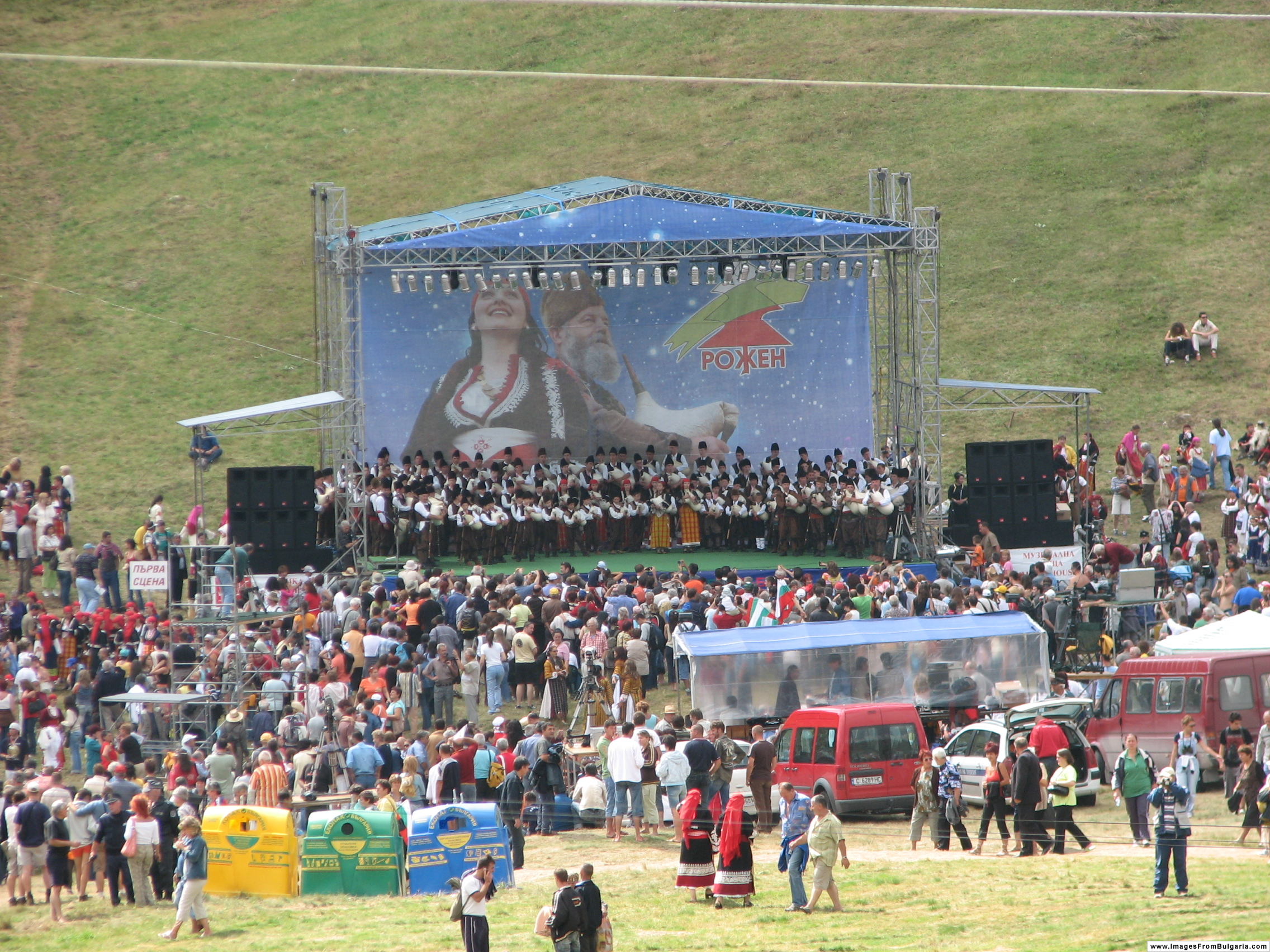 Rozhen National Folklore Fair, Bulgaria. Author: Stoycho Bozukov.